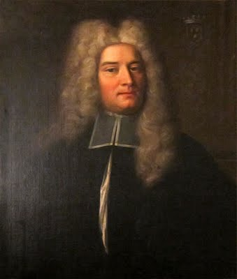 18th century painting of Philippe Albert de Büren (1678-1756).